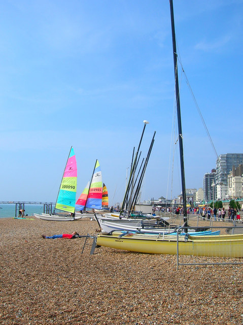 Boats on Brighton Beach. Where once there were fishing boats pulled up onto the shingle nowadays the shingle is home to just sailing boats. Pleasure has replaced work.